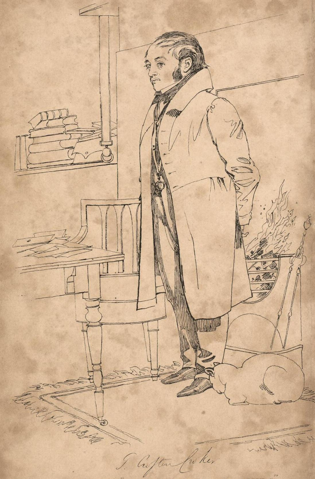 A portrait from the Welsh Portrait Collection at the National Library of Wales. Depicted person: Thomas Crofton Croker – Irish antiquary